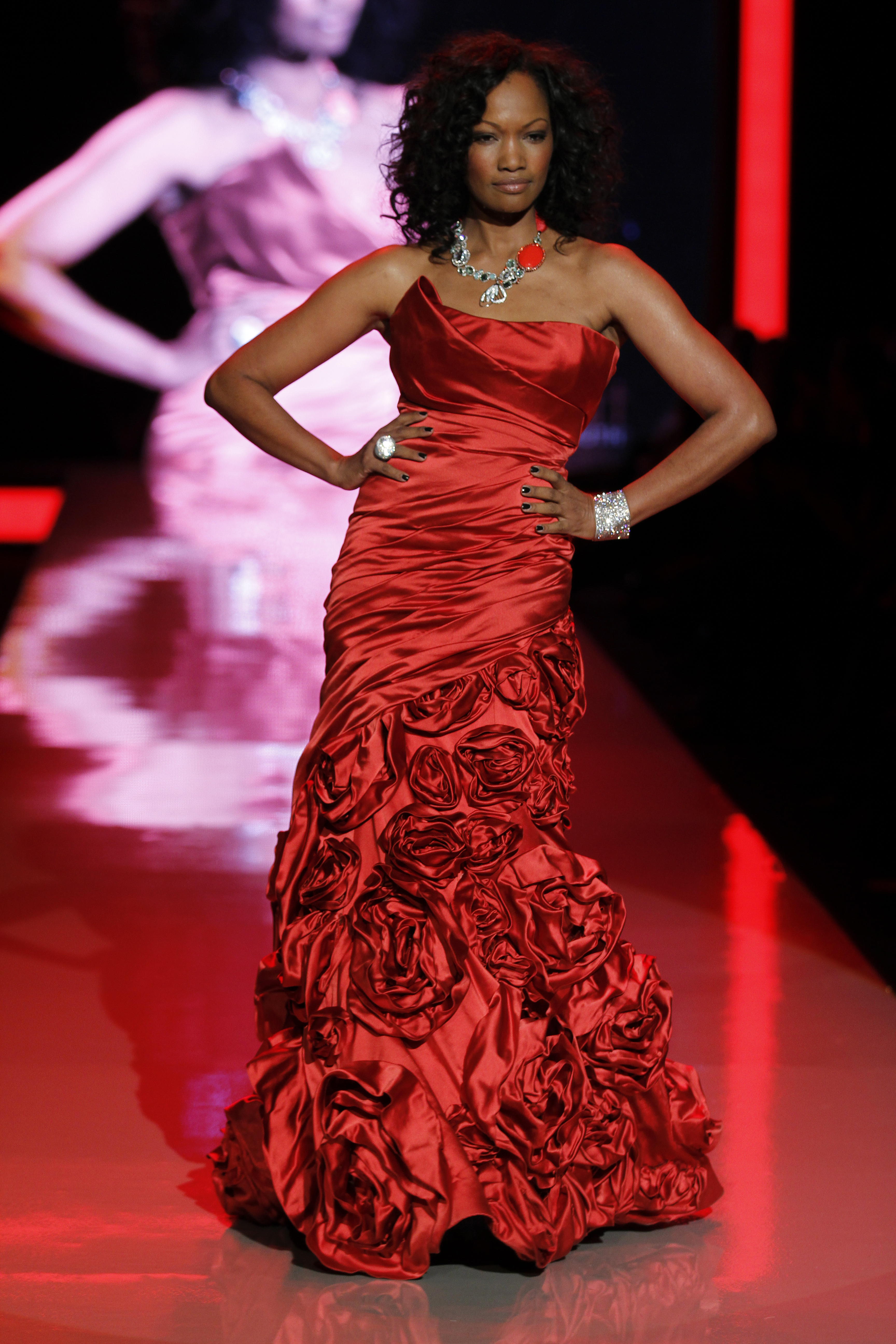 Garcelle Beauvais in Monique Lhuillier